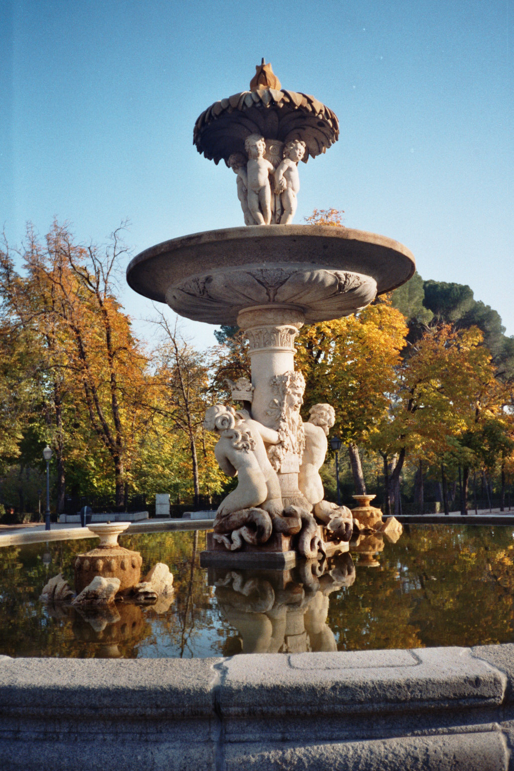 Description: View on Parque del Buen Retiro, Madrid. Source: self-made, I release it into the public domain.